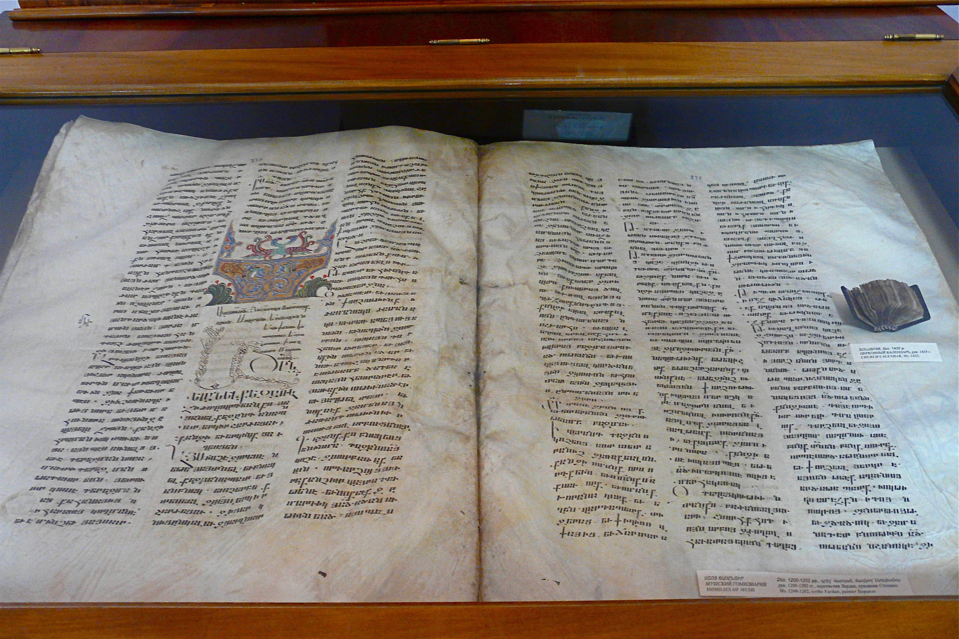 The biggest (homiliarium, Ms. 7729) and the smallest (church calendar, Ms. 7728) books preserved in the Matenadaran, Yerevan, Armenia.